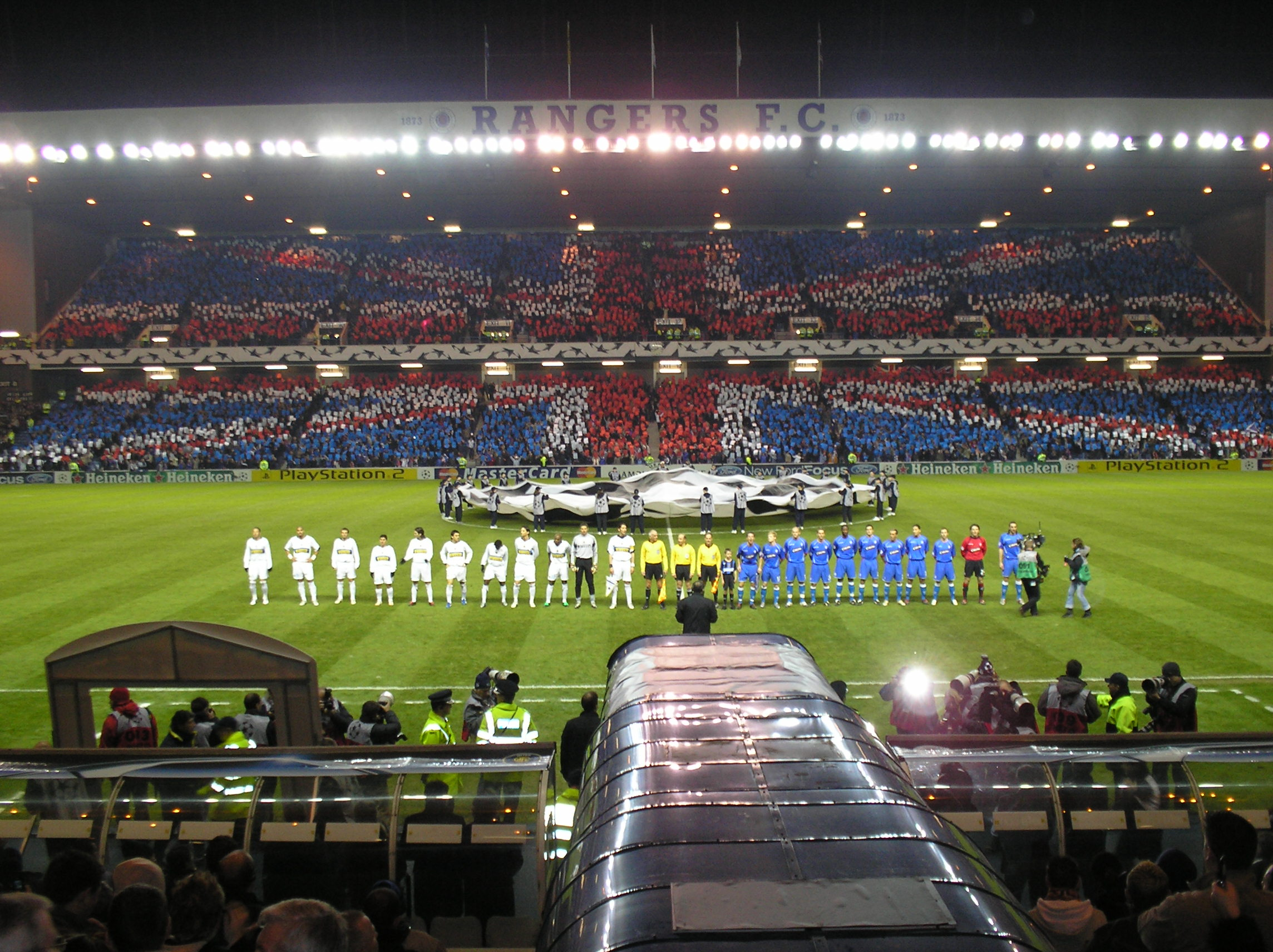 View of Govan Stand Ibrox Stadium before Rangers v Inter Milan, Champions League December 2005.